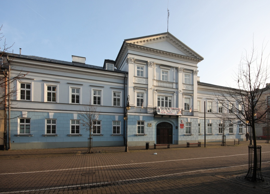 Włocławek, former county office at 3 Maja no. 17, dating back to 1836-1844.